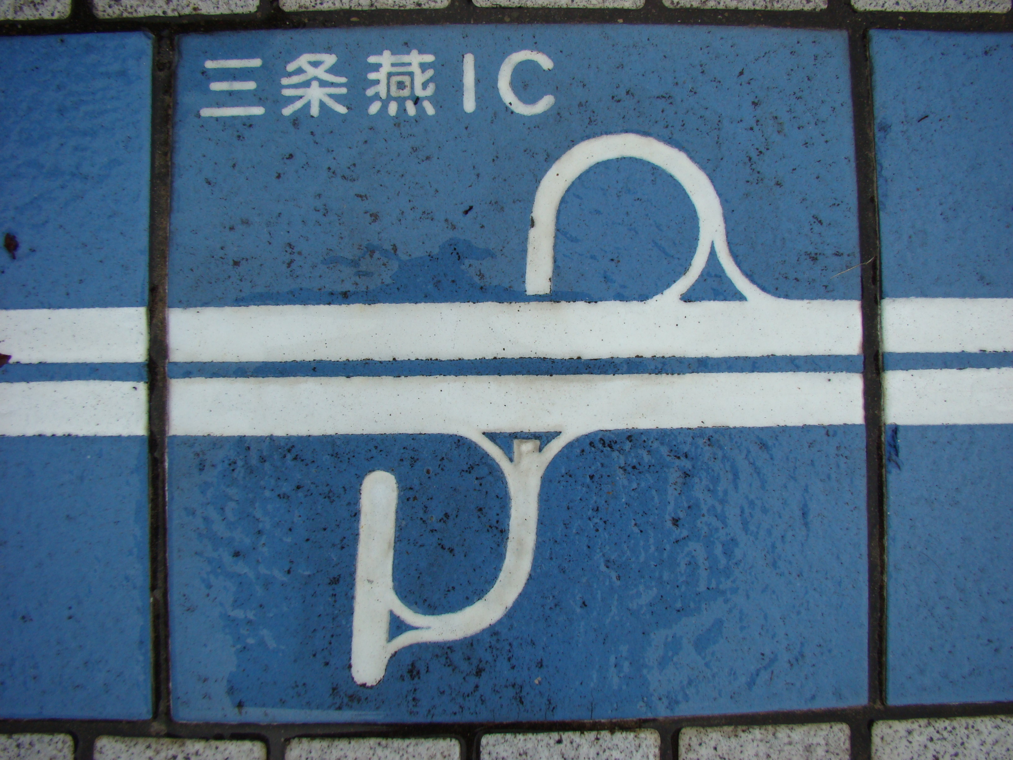 The tile which designed a shape of the Sanjo Tsubame Interchange（Hokuriku Expressway）（There is this tile in Hokuriku Expressway Nadachi-Tanihama Service Area.）. Place - Chayagahara,Joetsu City,Niigata Prefecture,Japan Date - August 9, 2009 Format - JPEG, 3264x2448pixel, 24bit colors. Photographer - NALA Wiki (talk)